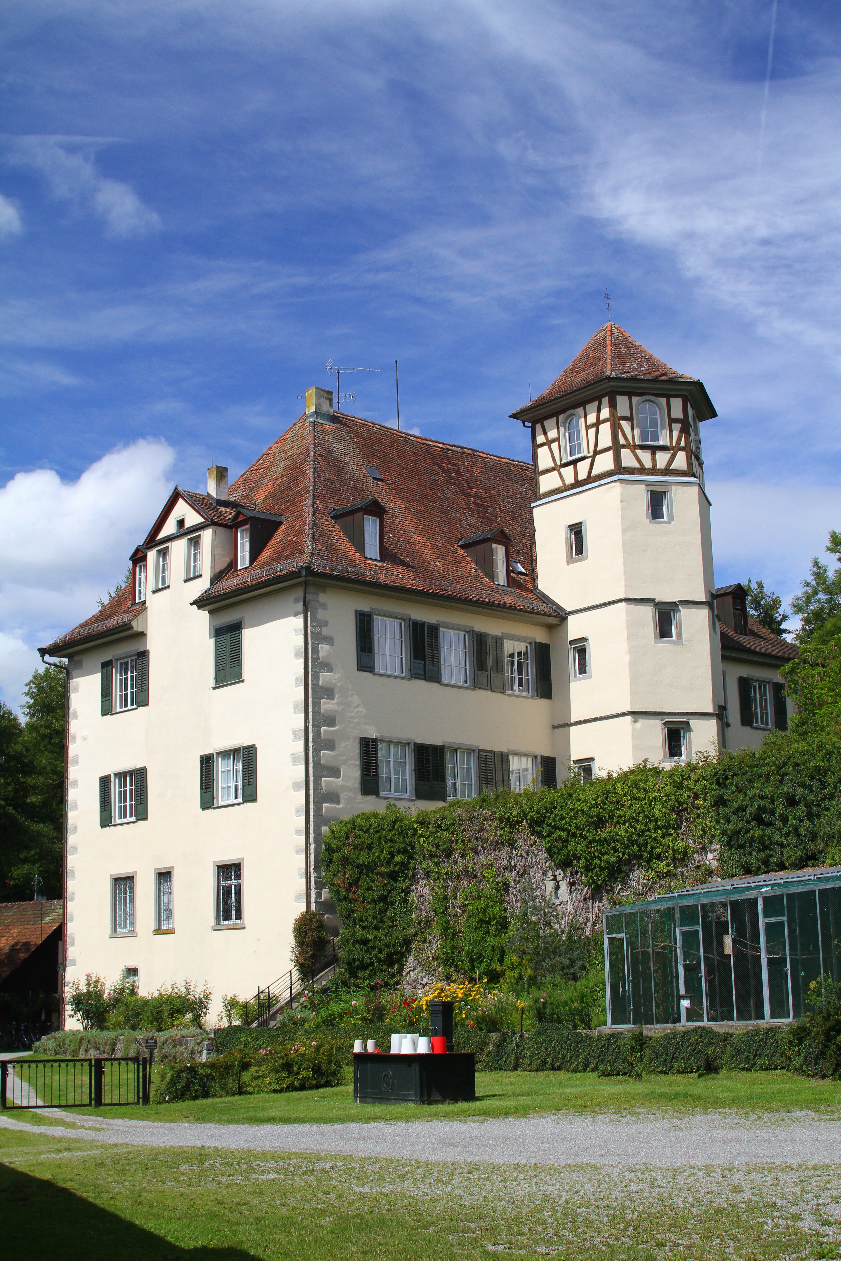 Vogelwarte Radolfzell